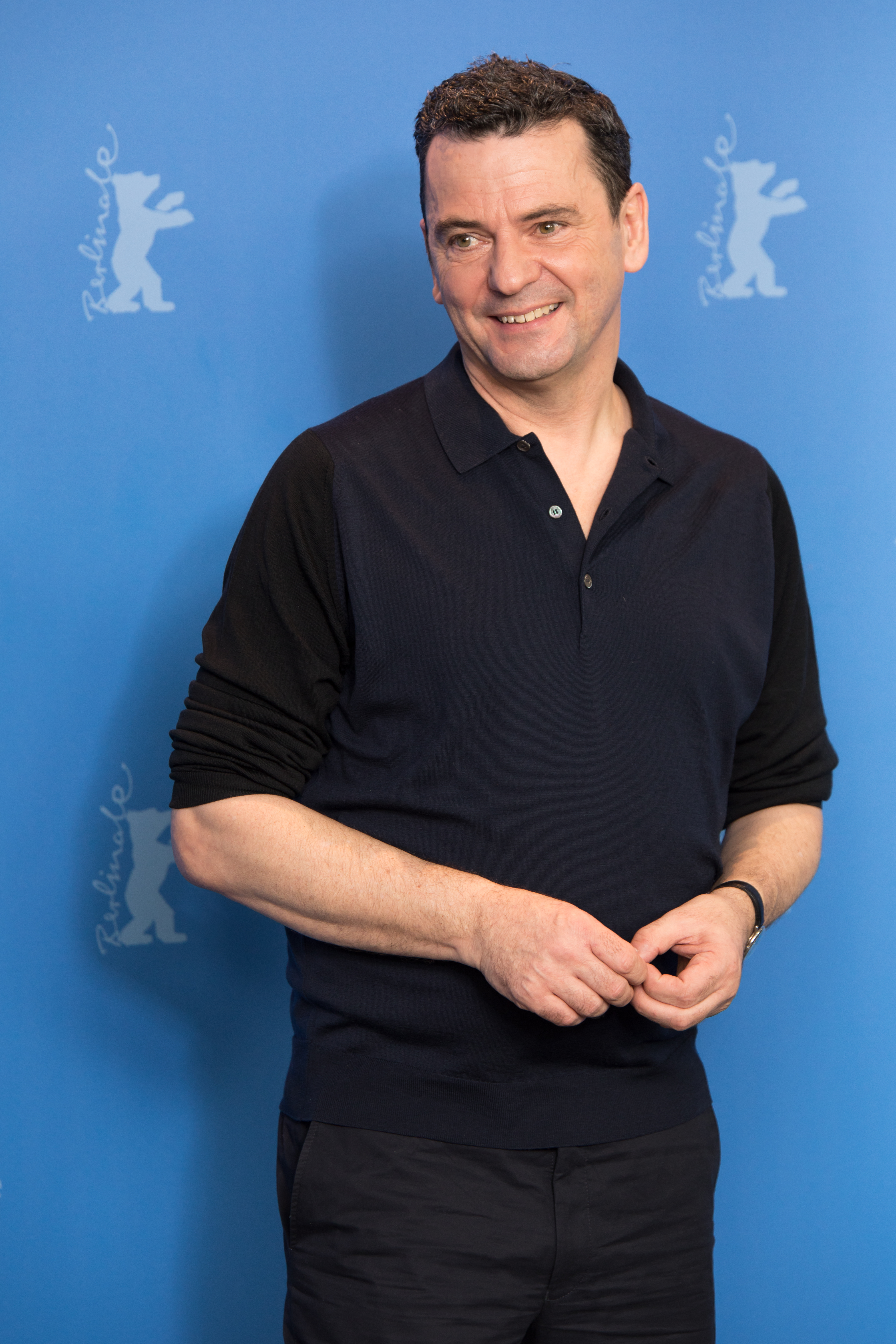 Director Christian Petzold at the photo call for the movie "Transit" at the Berlinale 2018